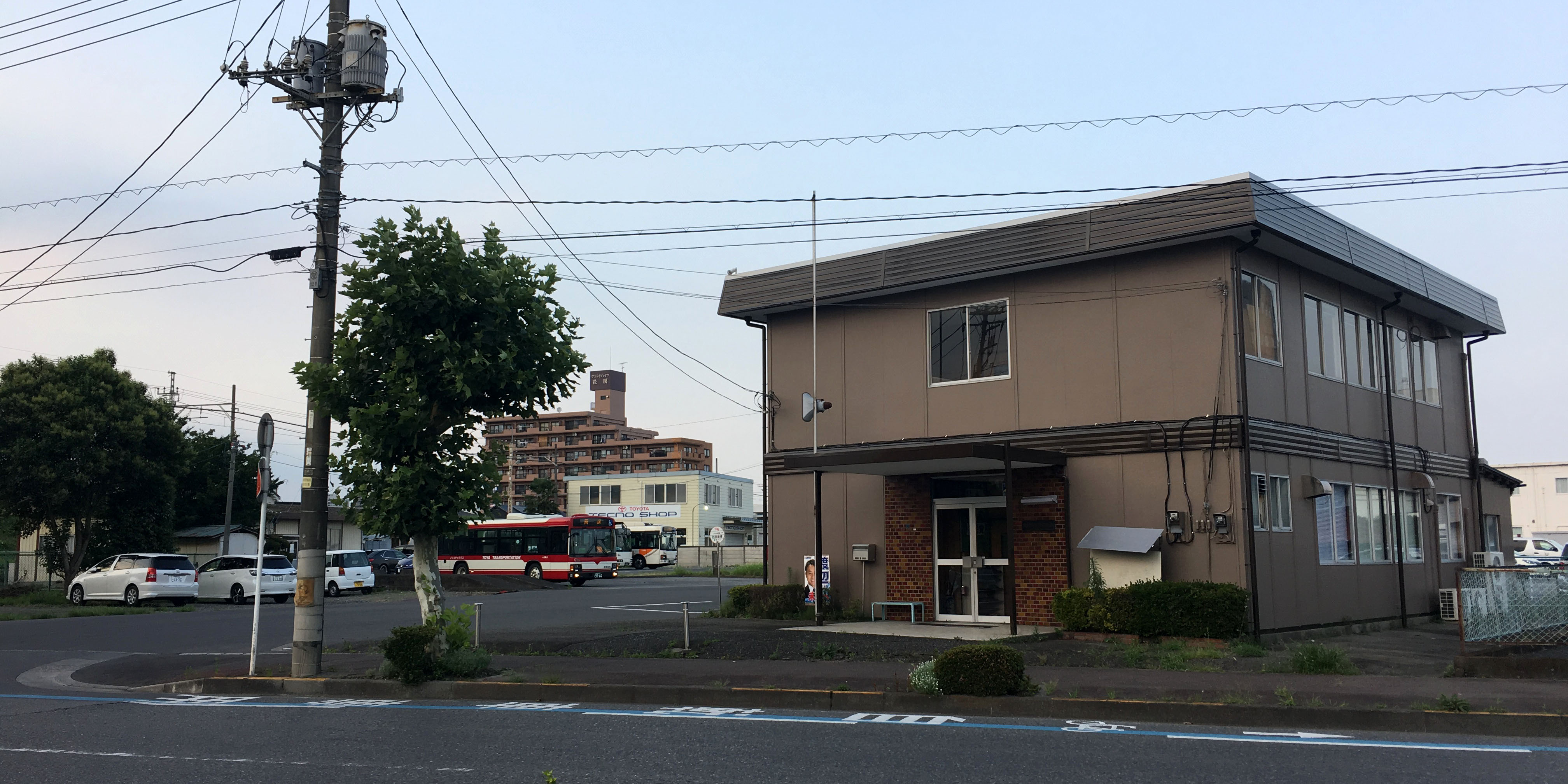 Toya Kotsu (Japanese bus company) Nishihara base (Utsunomiya, Japan)